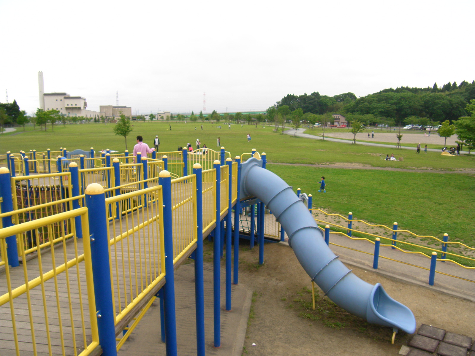 Kasenuma Park. Kase, Rifu, Miyagi prefecture, Japan.